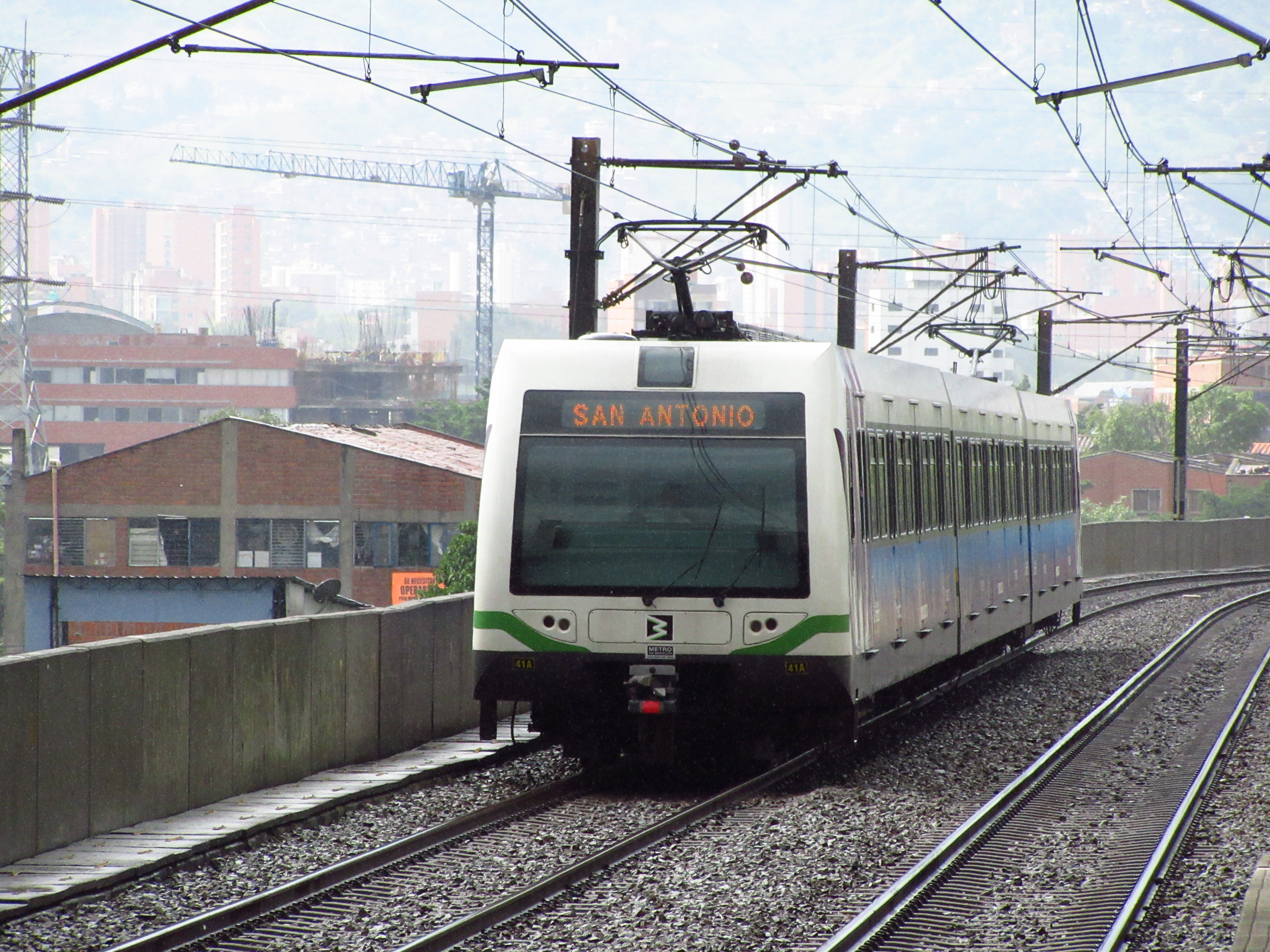 Metro con dirección San Antonio